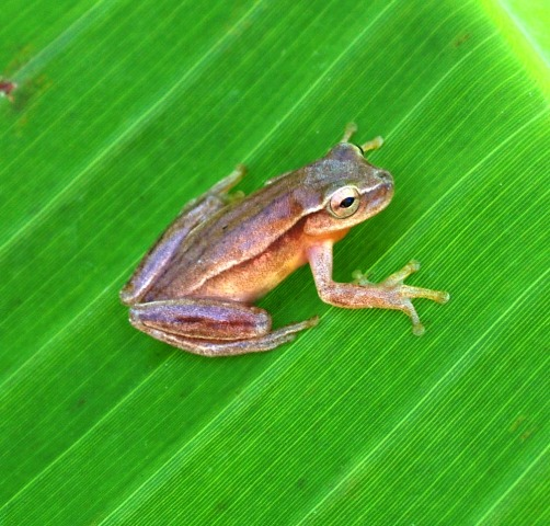 Dendropsophus microcephalus